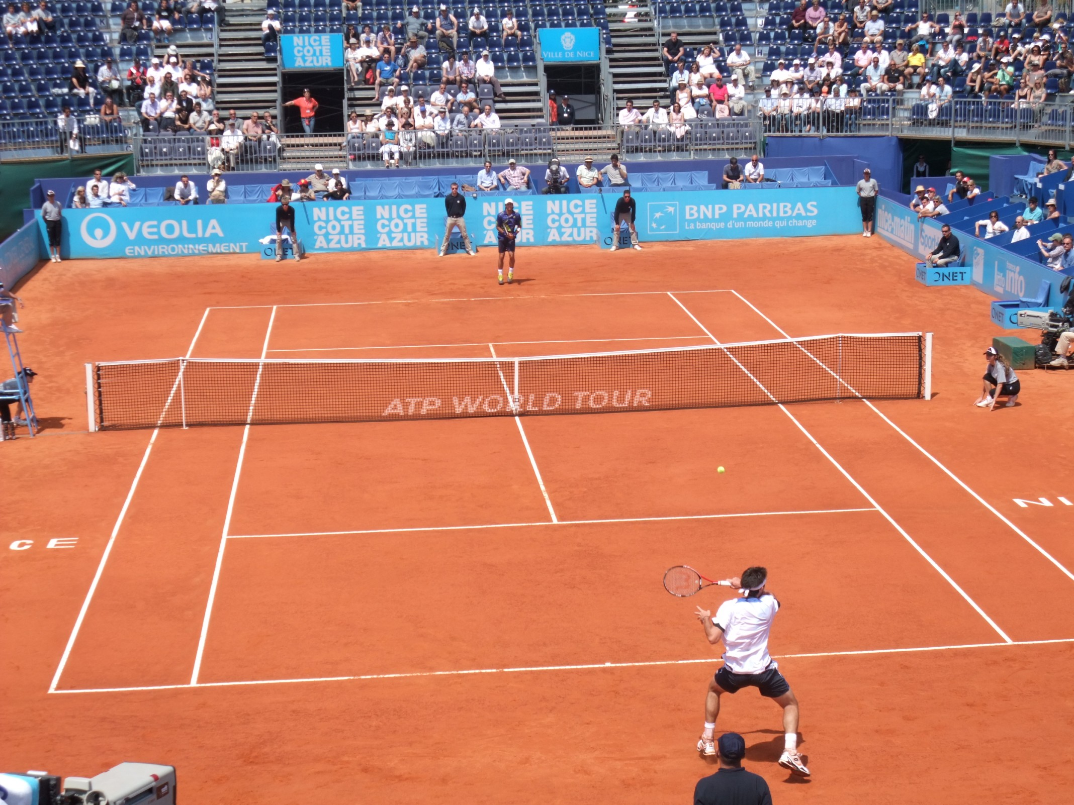 2010 Open de Nice Côte d’Azur - Semi-Final between Leonardo Mayer (Argentina) and Fernando Verdasco (Spain).